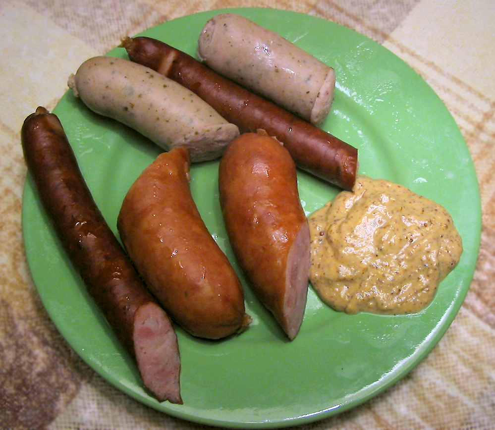 Various kinds of Polish kielbasa (kiełbasa). From the top: biała kiełbasa (white sausage, not smoked), kabanos (or kabanosy in plural form, thin and dried), wiejska kiełbasa (country sausage, smoked), served hot with mustard